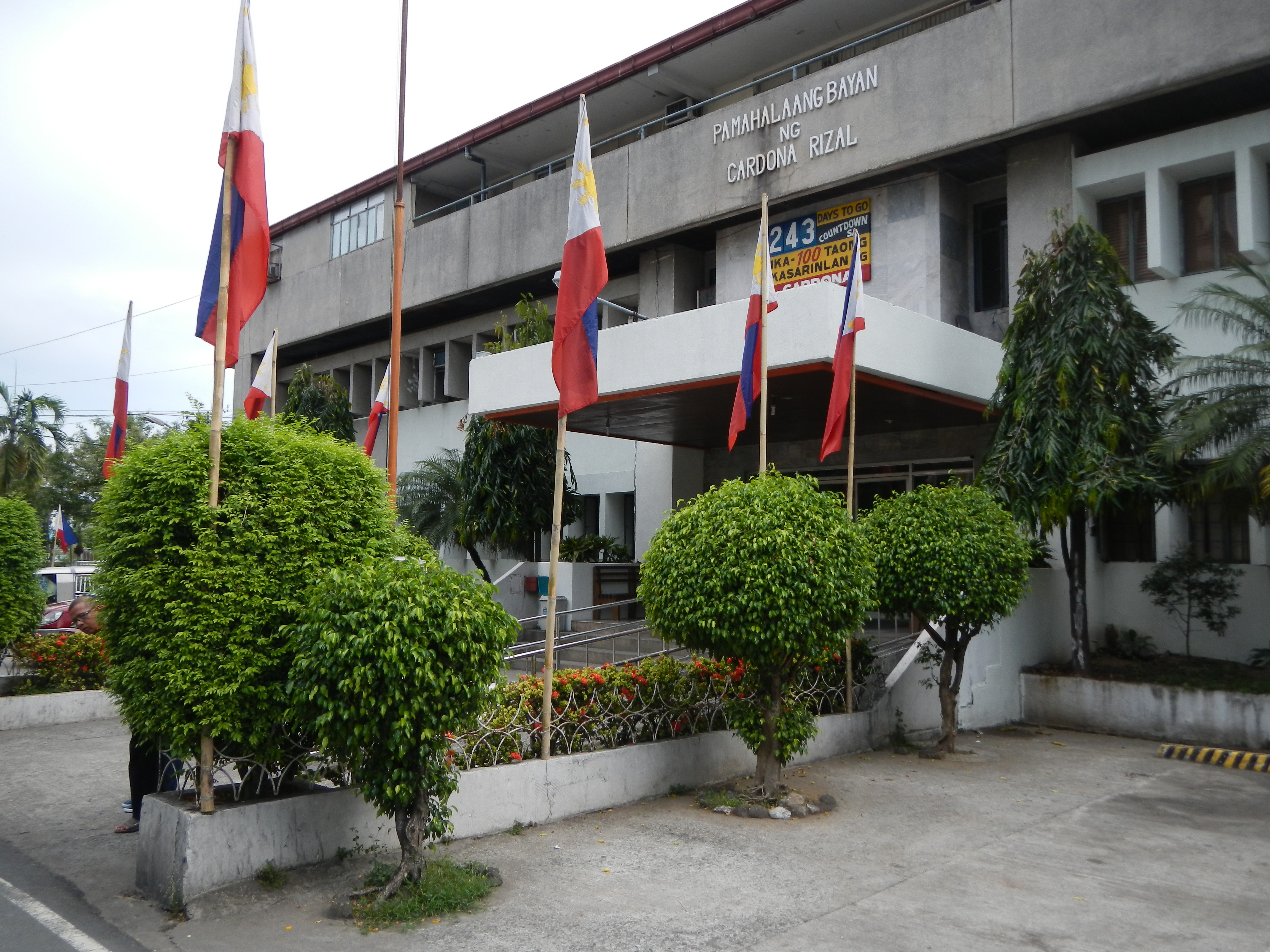 Rare, raw, unedited and original photos of Heritage Cardona Municipal Hall (it will be 100 years old on February, 2014) [1] Coordinates: 14°29'5"N 121°13'50"E Cardona, Rizal[2] Coordinates: 14°27'32"N 121°13'26"E [3] Website [4] geographical location: Rizal, Region 4, Philippines, Asia Geographical coordinates: 14° 29' 11" North, 121° 13' 46" East This place is situated in Rizal, Region 4, Philippines, its geographical coordinates are 14° 29' 11" North, 121° 13' 46" East and its original name (with diacritics) is Cardona.[5] [6][7] [8] Cardona is a first class urban municipality in the province of Rizal, Philippines. According to the 2010 census, it had a population of 47,414 inhabitants in 7,953 households. Cardona is in District 2 of Rizal. Cardona is politically subdivided into 18 barangays, 11 of which are on the mainland and 7 on Talim Island.[9] ---------[N.B. June 2, Sunday day, 2013 Photography of Angono, Rizal[10], Binangonan, Rizal[11] and Cardona, Rizal[12]: 80% cloudy and 20% sunny weather using my Nikon AW 100 waterproof shockproof camera. From Bulacan at 10:45 a.m., I took photo at 12:25 pm of Goldenhills Jewelry of Antonio Z. Atienza, Jr.[13] in Robinsons Ortigas; and reached Angono, Rizal junction, crossing at 2:06 pm, then took photos of Binangonan Municipal Hall at 2:44 pm; I finished Cardona, Rizal photography at 5:17 p.m., and arrived at Bulacan at 9:30 pm after 3+ hours of travel by bus, and started uploading via slow internet at 9:50 pm - I hereby certify that these rarest, raw, original and unedited photos are exclusive for Commons and Wikipedia never uploaded in any Internet or any site, and for the public domain without any condition.]